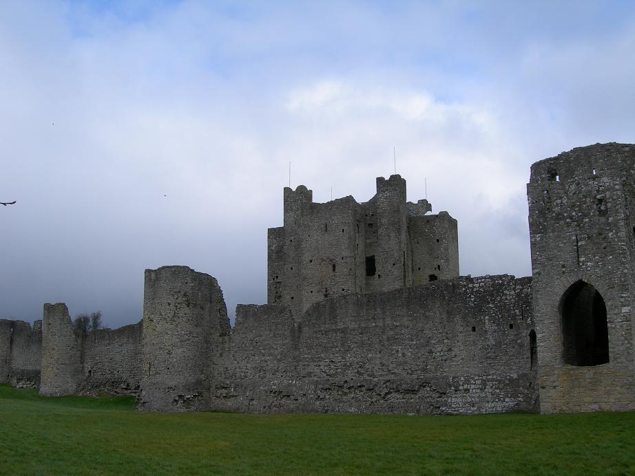 Trim Castle